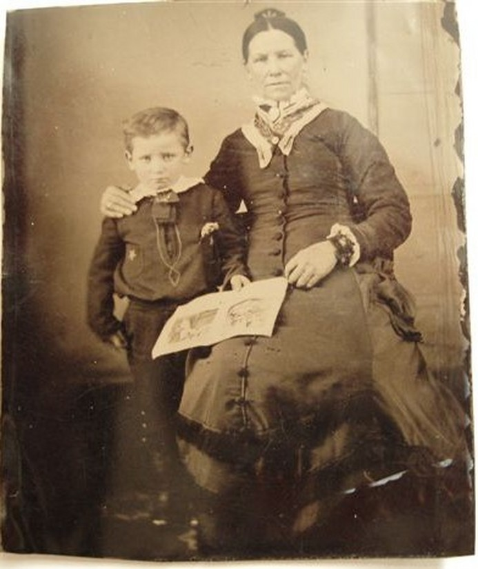 Wyatt Earp with his mother Virginia Ann Cooksey Earp c. 1856. Wyatt was named by his father Nicholas for Captain Wyatt Berry Stapp, leader of "Stapp's Company," a cavalry regiment of mounted volunteers from Warren, County, Illinois during the Mexican-American War.